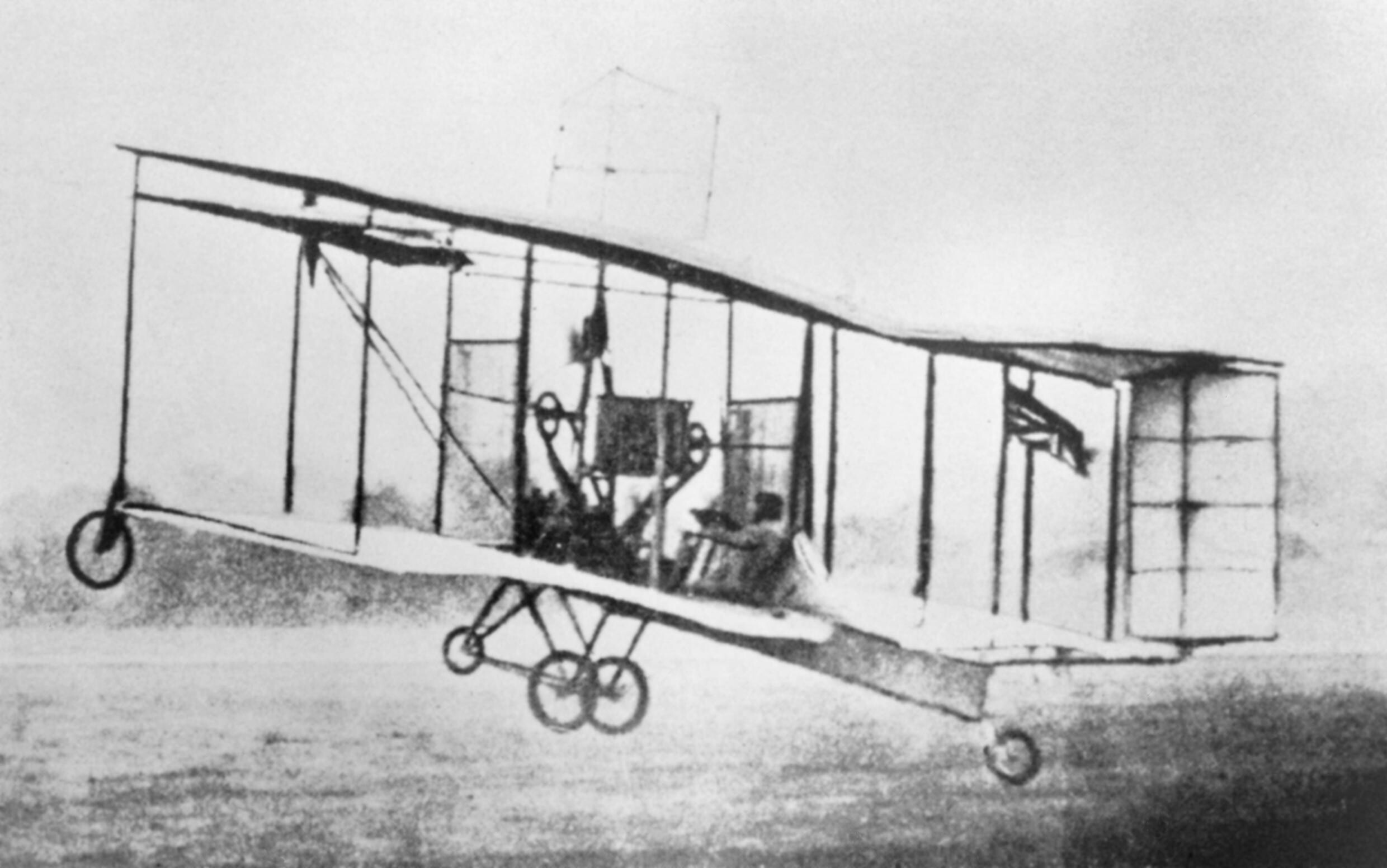 British Army Aircraft I during the first sustained flight.